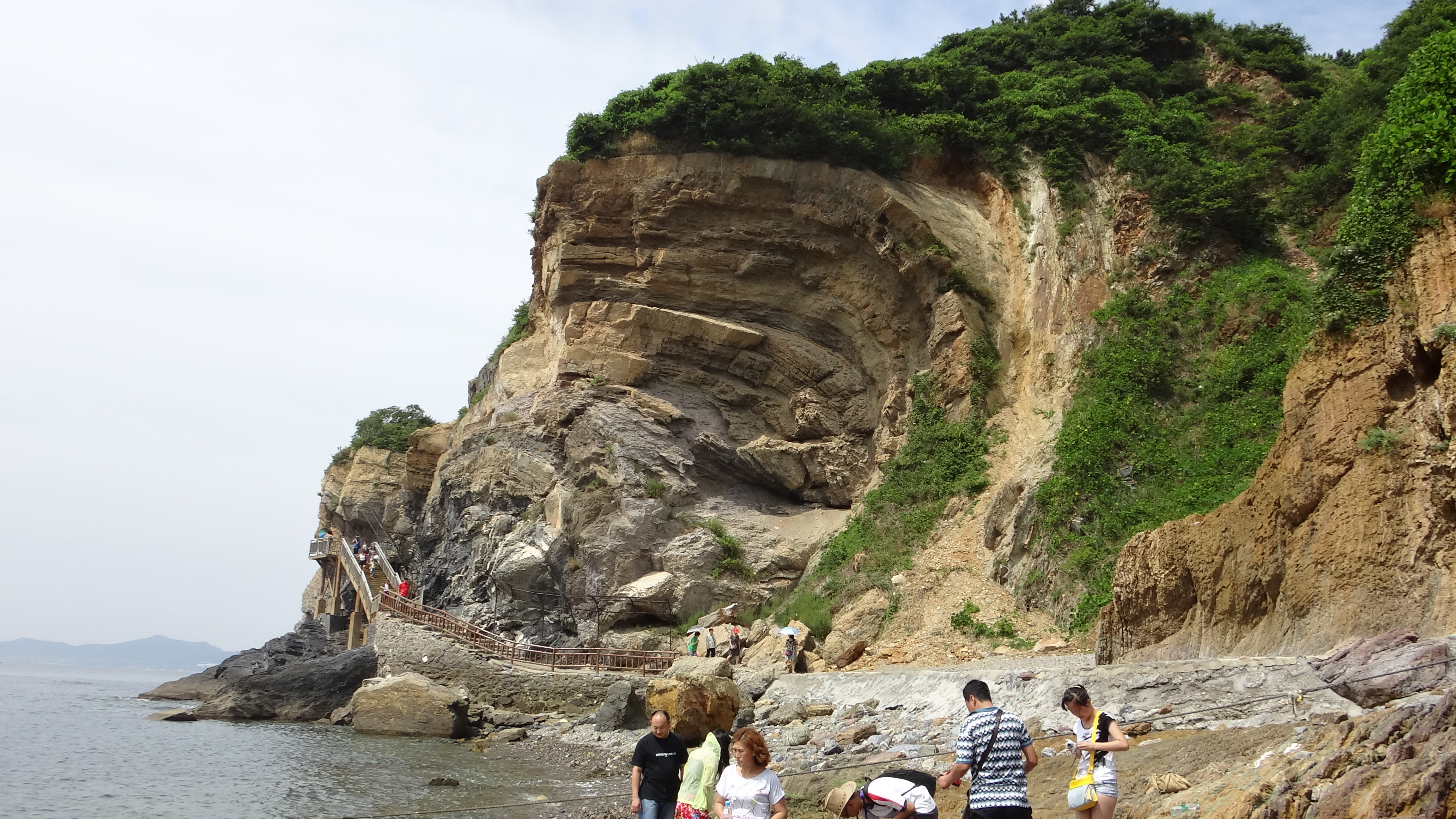 A sea-wave-looking sea cliff in Jinshitan district.